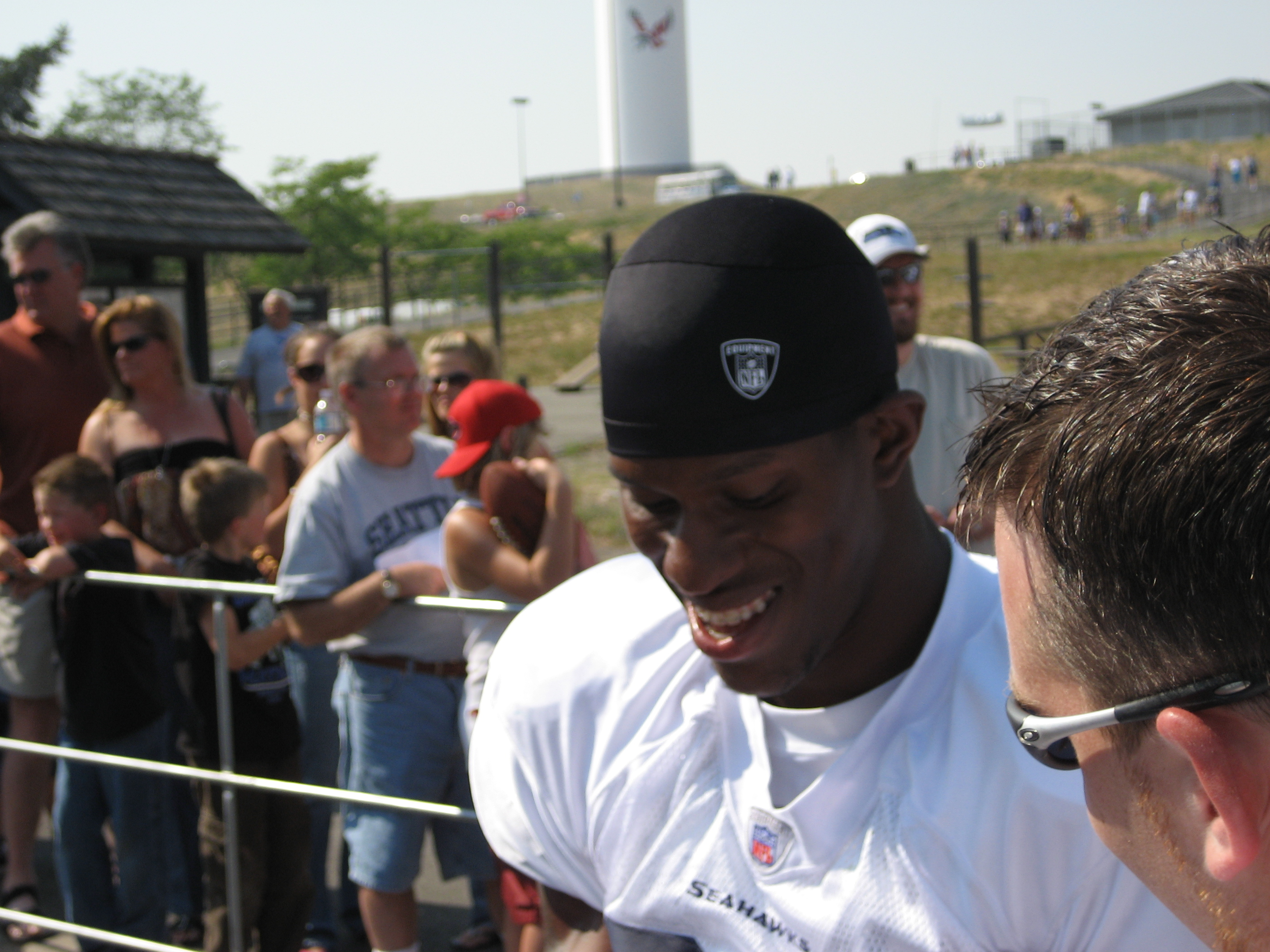 Picture of Seahawks players walking a gauntlet of fans at Eastern Washington University, Cheney Washington, following the team scrimmage. #26 Ken Hamlin jaws with a fan following the team scrimmage.